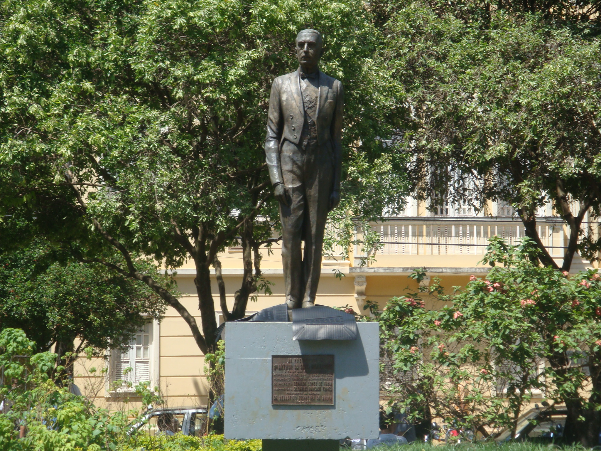 Statue Arthur Bernardes